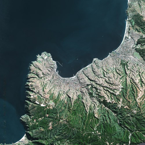 Satellite image of Valparaiso (town and bay) and the coastal Valparaíso Region of Chile. Picture by SPOT Satellite.